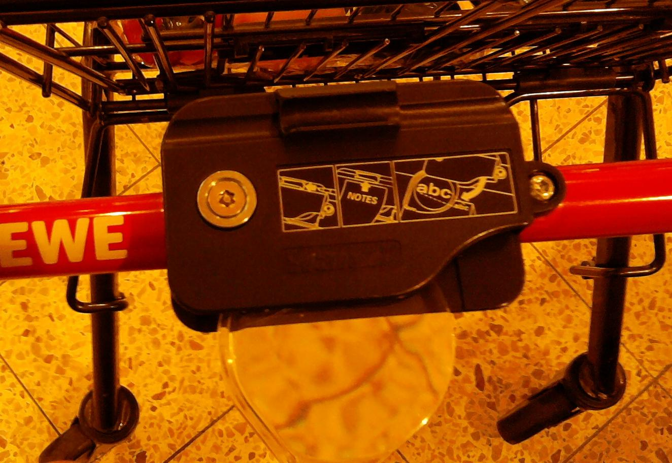 Shopping cart with Magnifying glass